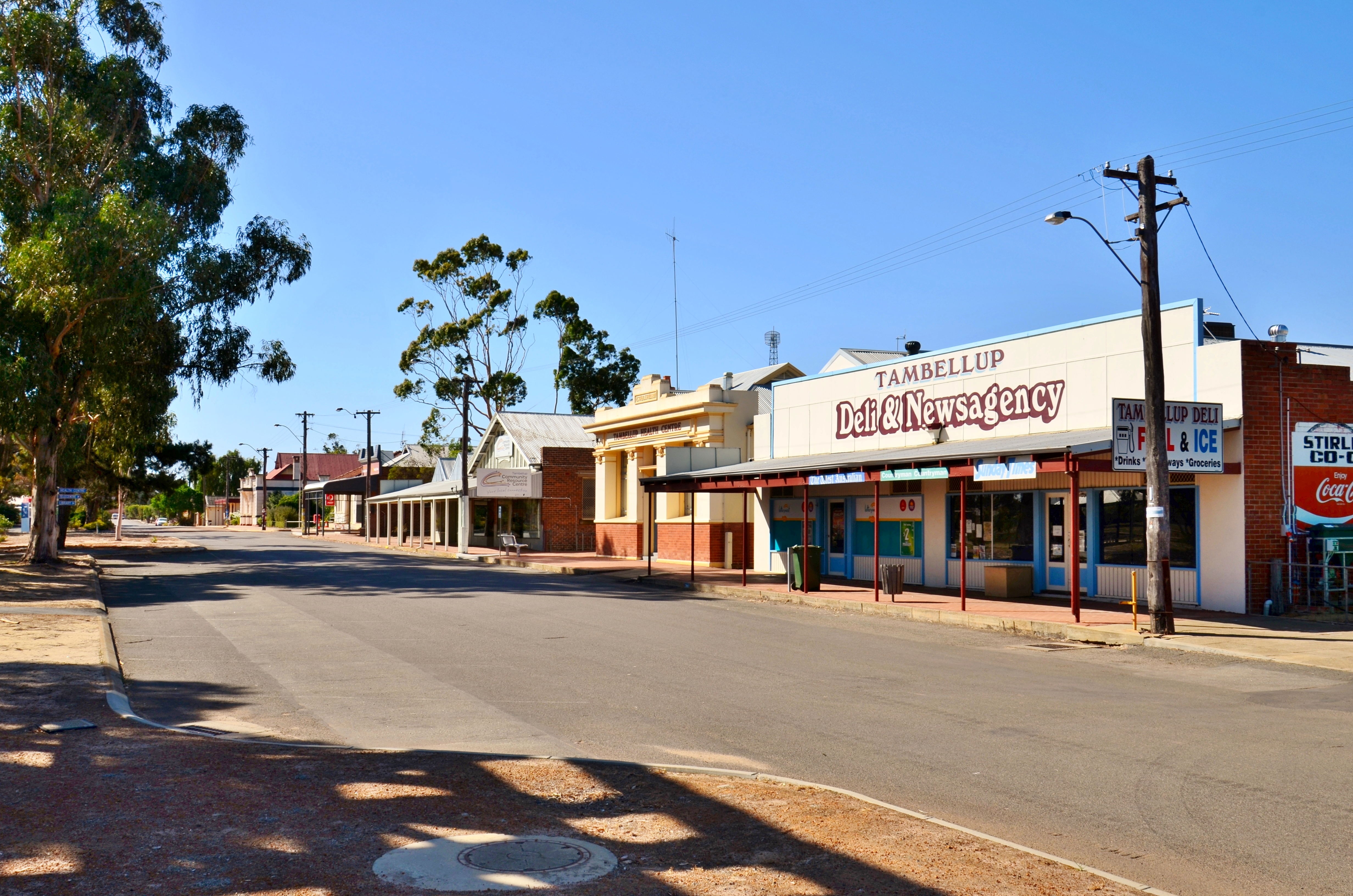 View of Norrish Street, the main street of Tambellup, Western Australia